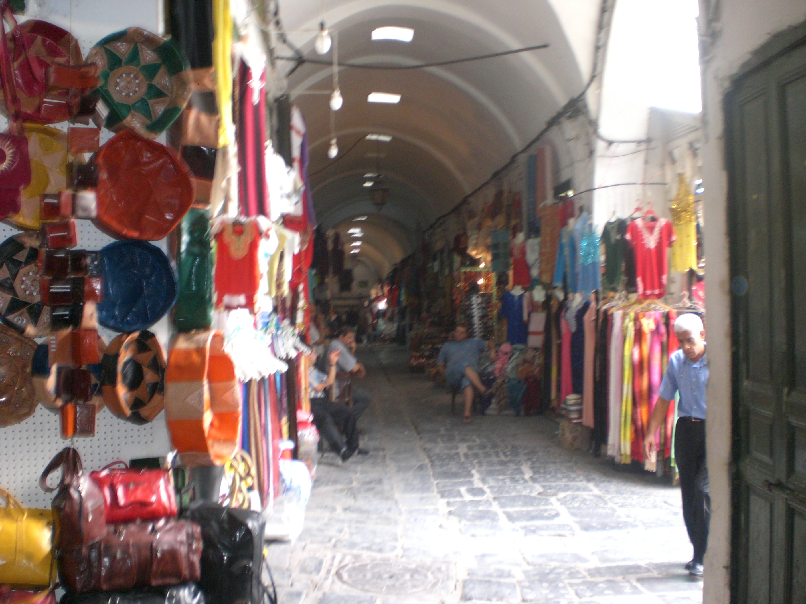 Attarine Souk -Tunis